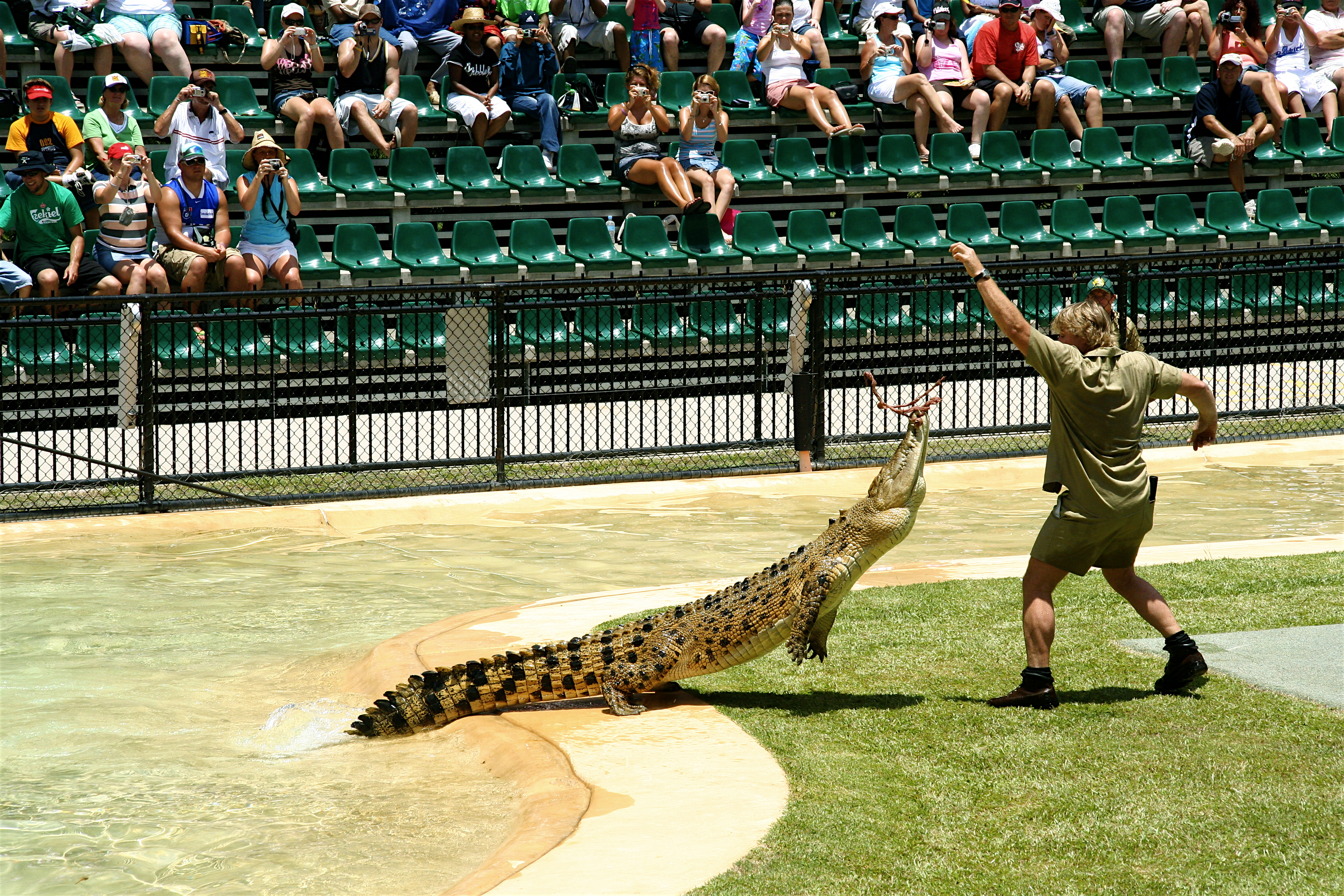 Steve Irwin feeding a crocodile at Australia Zoo.Steve Irwin (RIP)